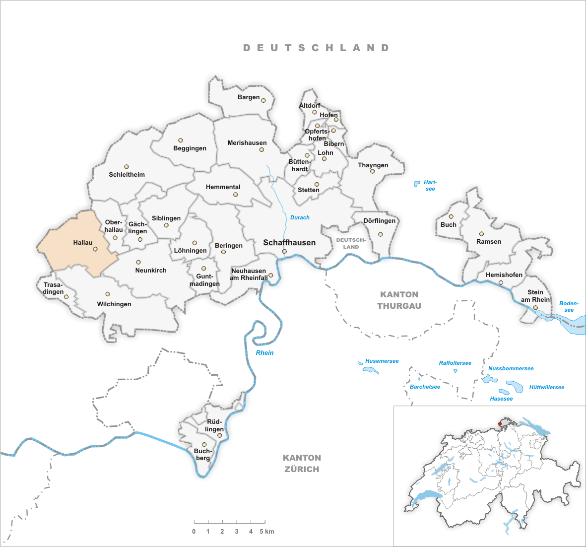 Municipality Hallau